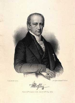 Frederik Adolph Holstein(-Holsteinborg) (1784-1836), Danish Count, estate owner, and politician